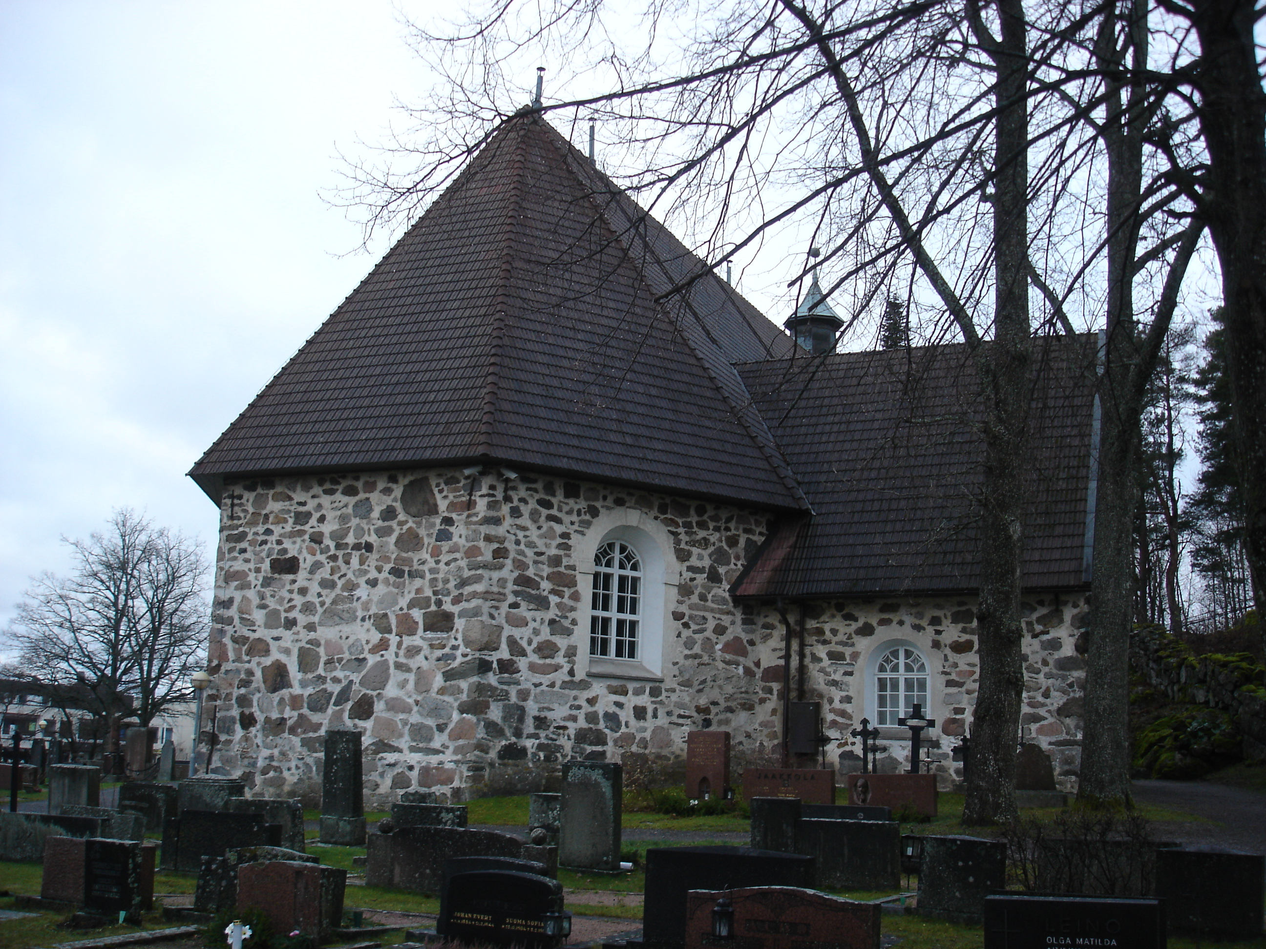 The church of Piikkiö.